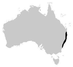 Distribution of the Tyler's Tree Frog, Litoria tyleri.